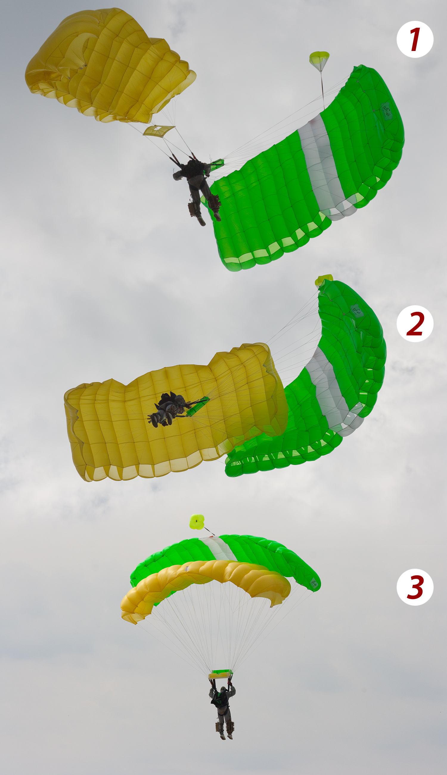 The process of reserve canopy opening while the main one is still working. This time it happens ok. - At about 100 m. reserve canopy suddenly unpacks and opens - Skydiver decides not to cutaway the main canopy, because of too low altitude. Reserve canopy goes forward and strikes the main canopy. - Skydiver fights for main canopy. Main and reserve canopies take position biplane (one of two possible positions when both canopies can work)